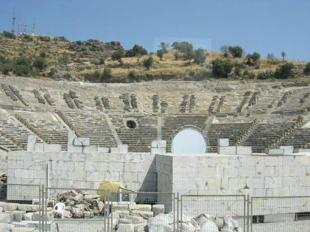 Ancient theatre in Bodrum, Turkey.